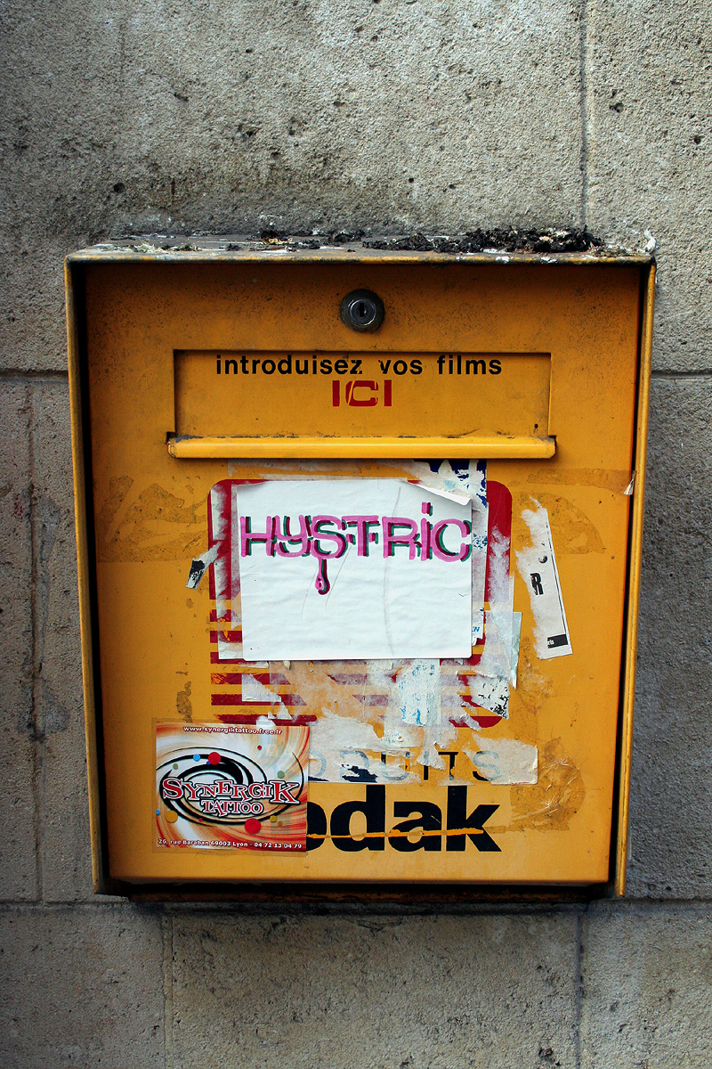 a Kodak post box in Paris, a few days after Kodak announced closing its last photo film laboratory in France.